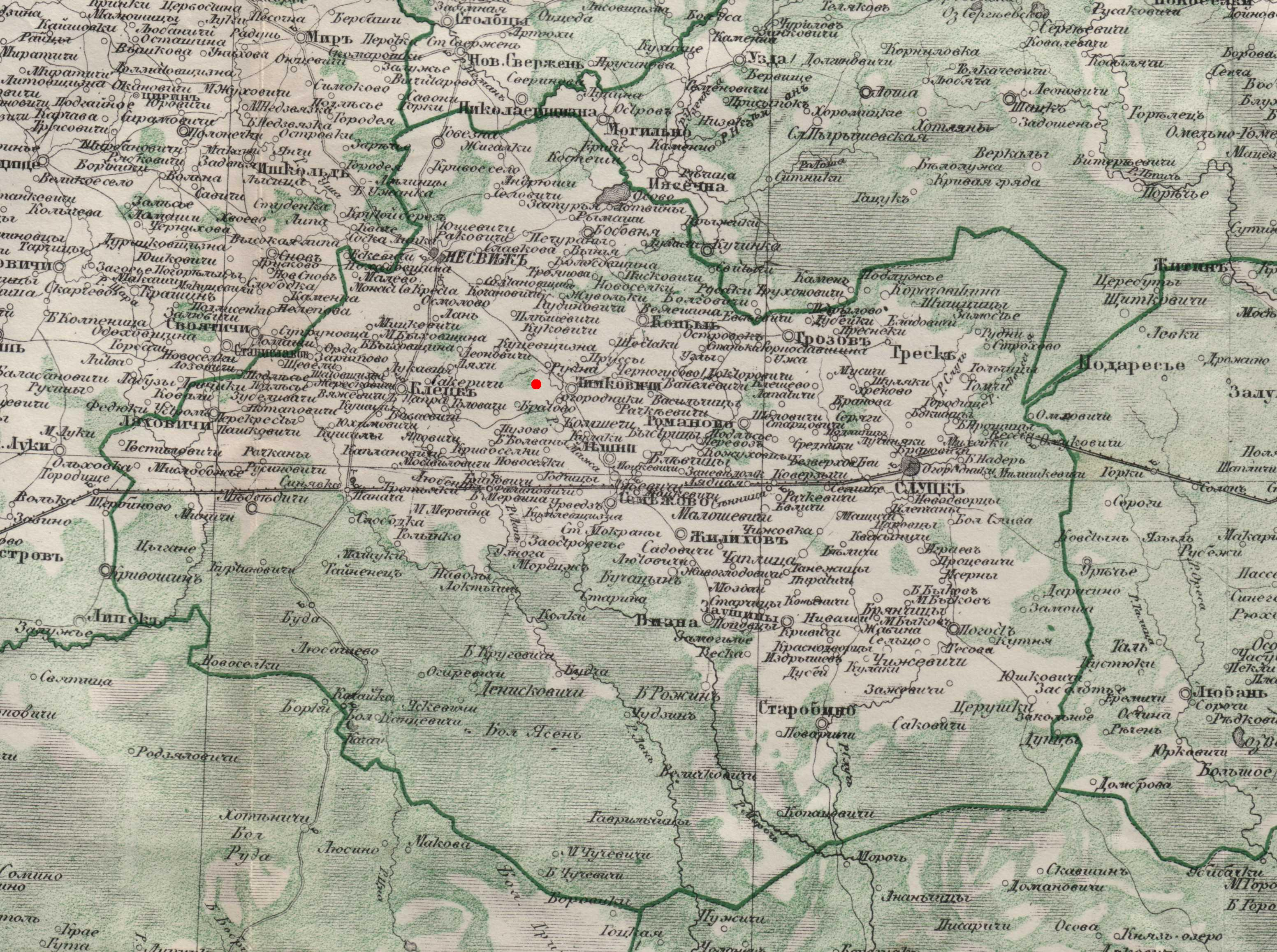 map of Slutsk district (fragment of a map of Minsk region), 1864 AD